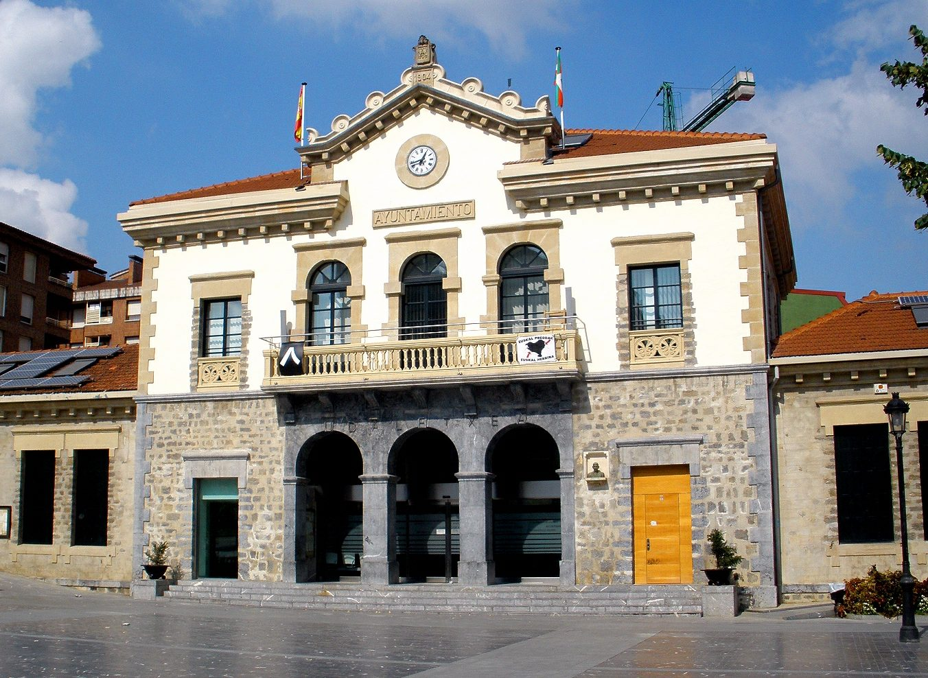 Ayuntamiento de Amurrio (Álava)